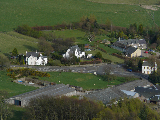 View of the Yetts O' Muckhart from Seamab